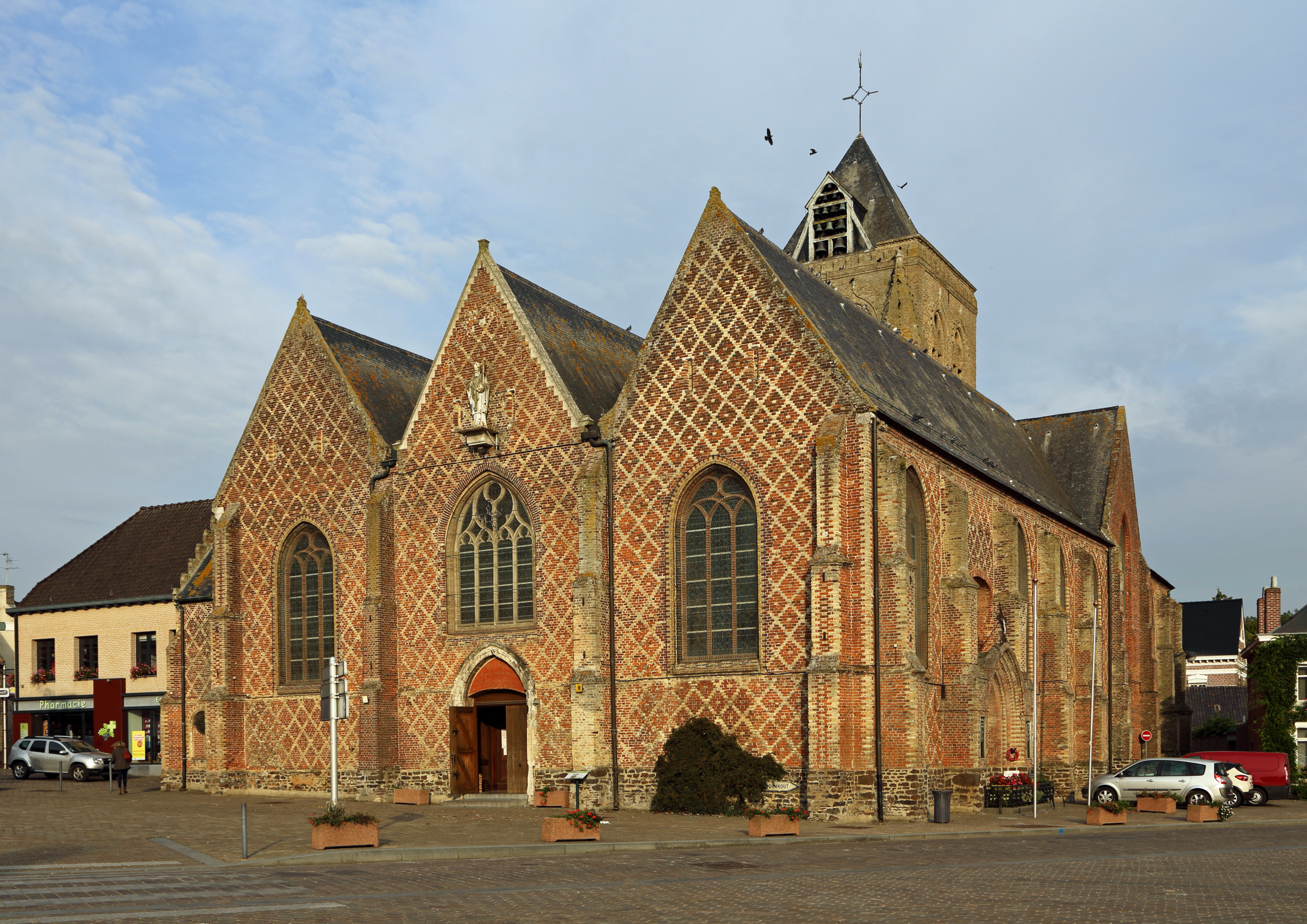 Esquelbecq (Nord department, France): St Folquin's church